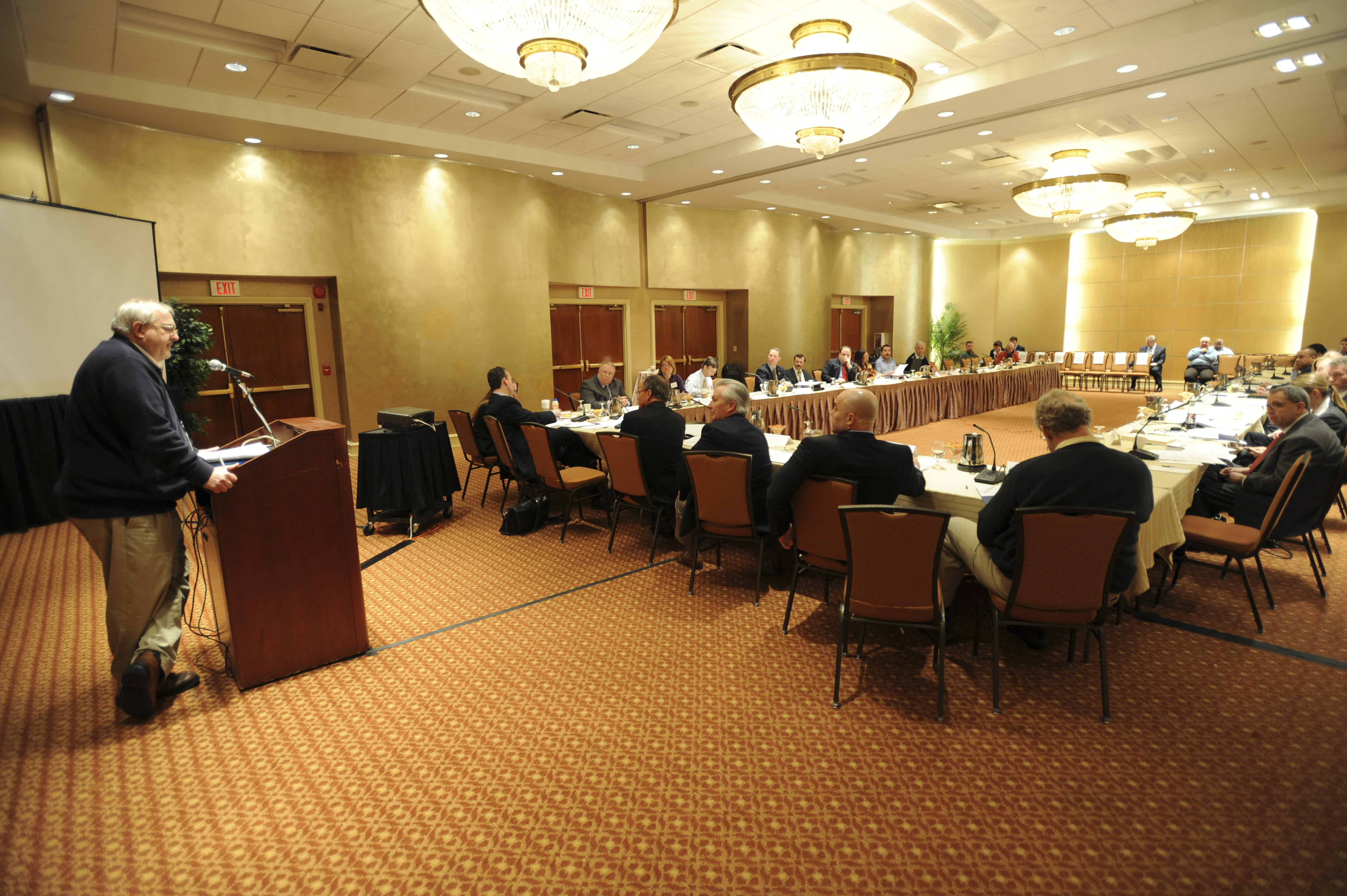 Washington, DC, February 10, 2010 -- Federal Emergency Management Agency (FEMA) Administrator Craig Fugate today swore in Richard Devylder, Special Advisor to the Secretary for the California Emergency Management Agency, and James G. Featherstone, General Manager of the City of Los Angeles Emergency Management Department, as members of FEMA's National Advisory Council (NAC). The NAC is comprised of emergency management and law enforcement leaders from state, local and tribal government and the private sector advises the FEMA Administrator on all aspects of disaster preparedness and management to ensure close coordination with all partners across the country. "The National Advisory Council helps ensure communication and cooperation among the nation?s broad emergency management team," said Administrator Fugate. "These new members are experienced and dedicated public servants whose backgrounds in preparedness and emergency management make them valuable additions to the National Advisory Council." FEMA/Terry Monrad